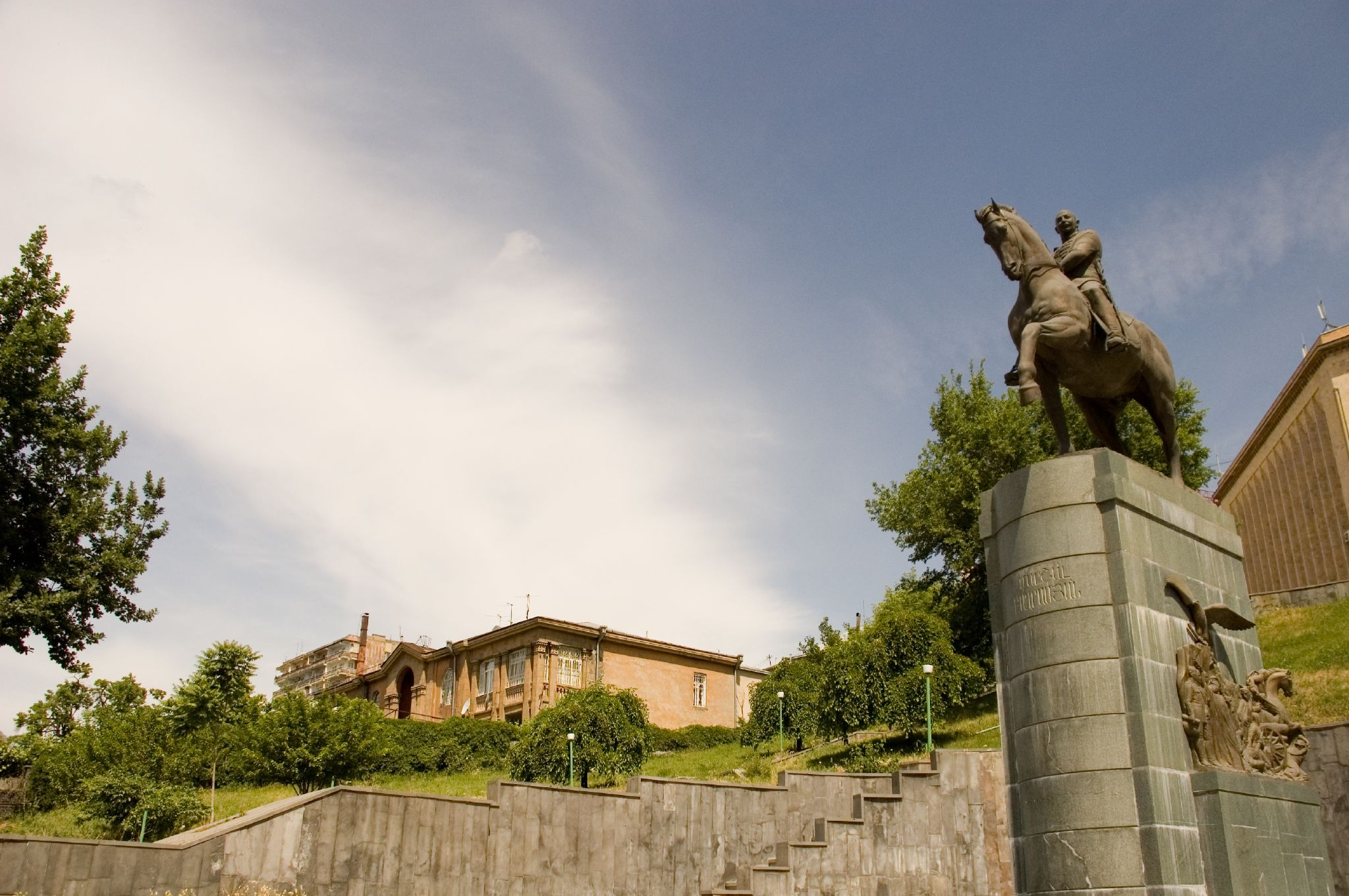 Marshall Baghramyan, Yerevan.